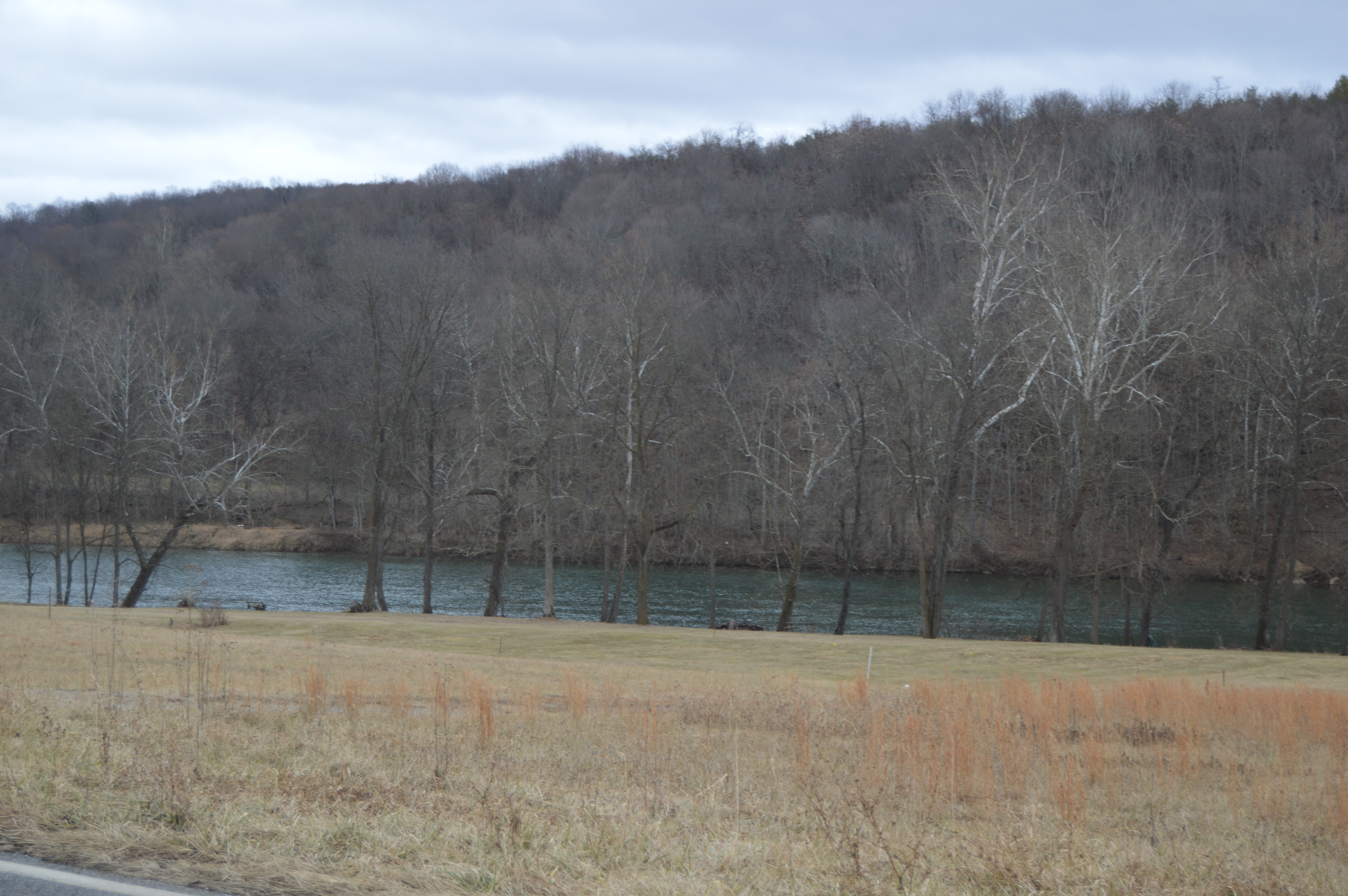 Fields located between Austinville Road and the New River across from Austinville in Wythe County, Virginia, United States. Much of the pictured part of the field comprises the Cornett Archeological Site, a significant archaeological site that is listed on the National Register of Historic Places.